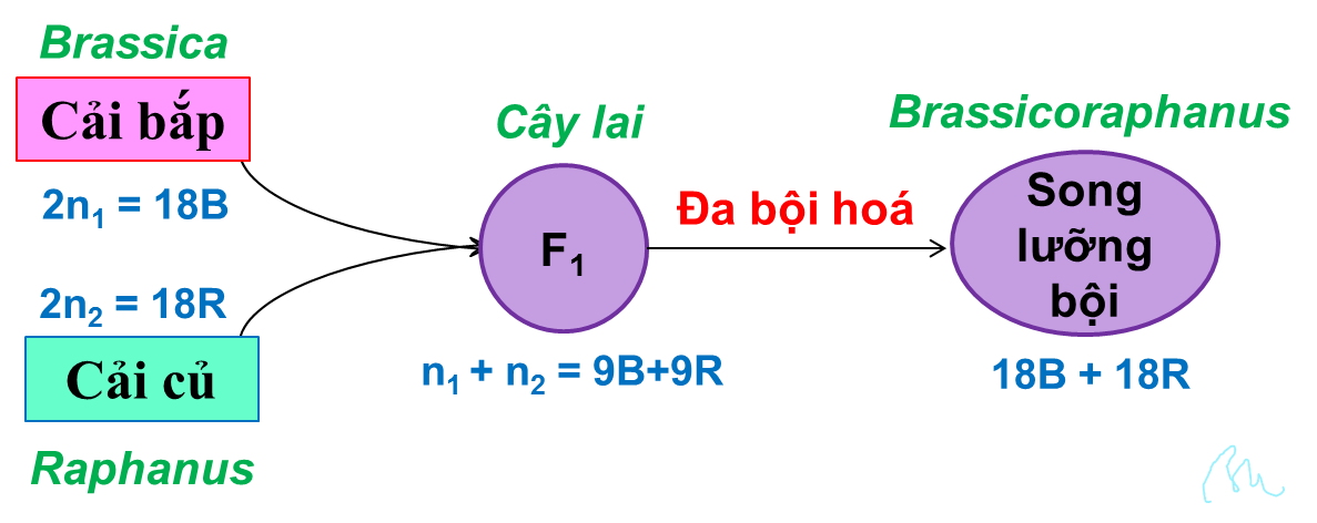 The diagram formate Brassicoraphanus (Georgy Karpechenko).